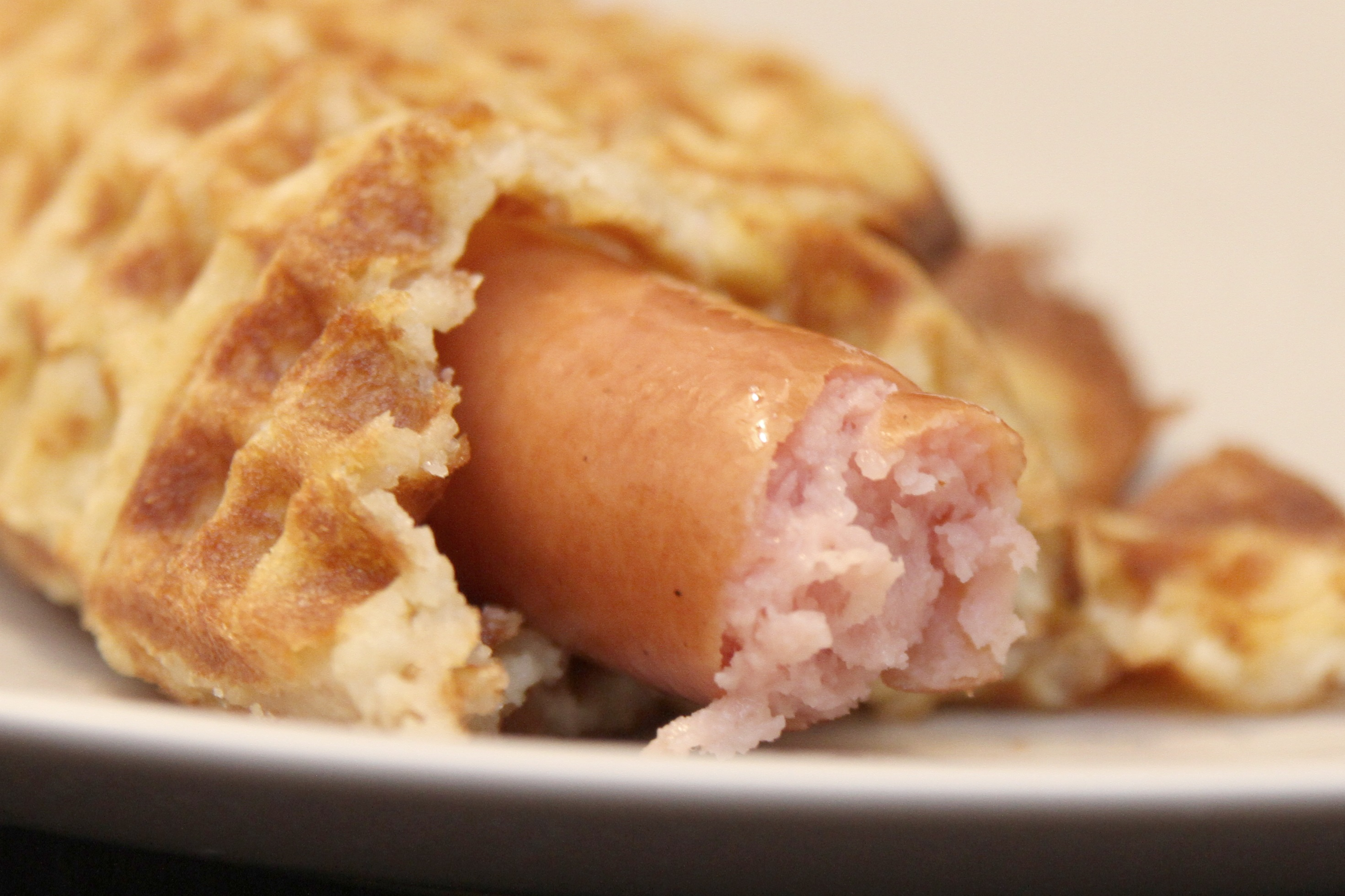 Hot dog in waffle, a specialty of Østfold, Norway.